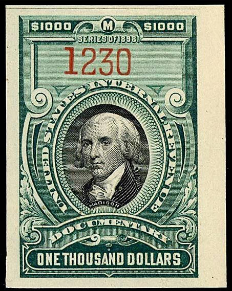 Image of James Madison on revenue stamp, 1000-dollars, issue of 1899 (Scotts# R181)